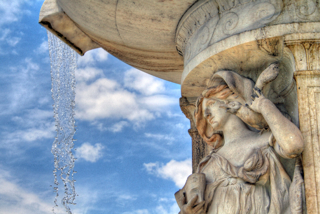 Fountain at Dupont Circle, Washington DC. Original photograph edited using High dynamic range imaging technique.